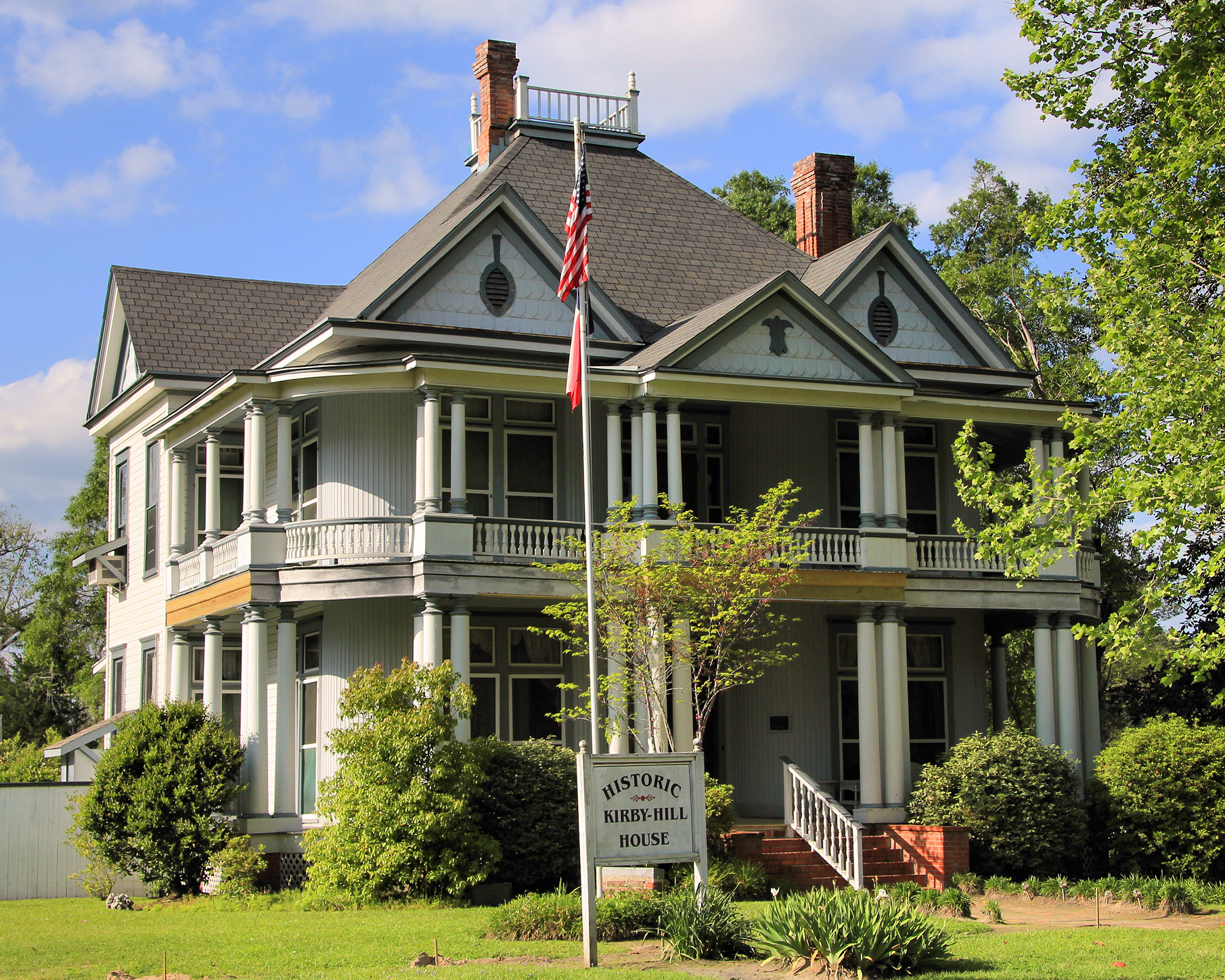 The Kirby-Hill House, Kountze, Texas, United States. The house was designated a Recorded Texas Historic Landmark in 1999 and listed on the National Register of Historic Places on May 20, 1999.